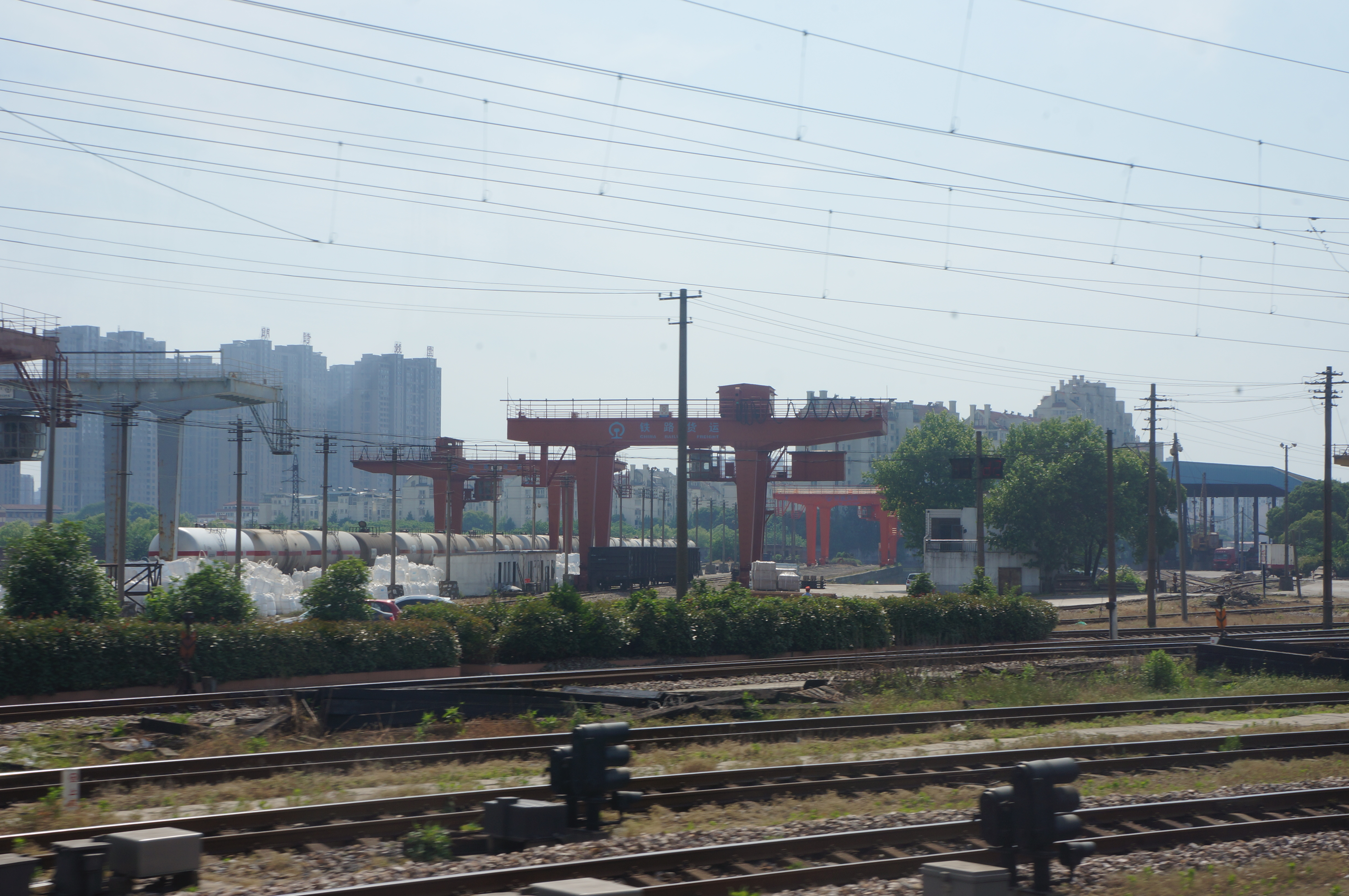 201705 Freight Yard at Changzhoudong